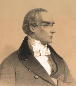 Count von Brunnow (1797-1875)